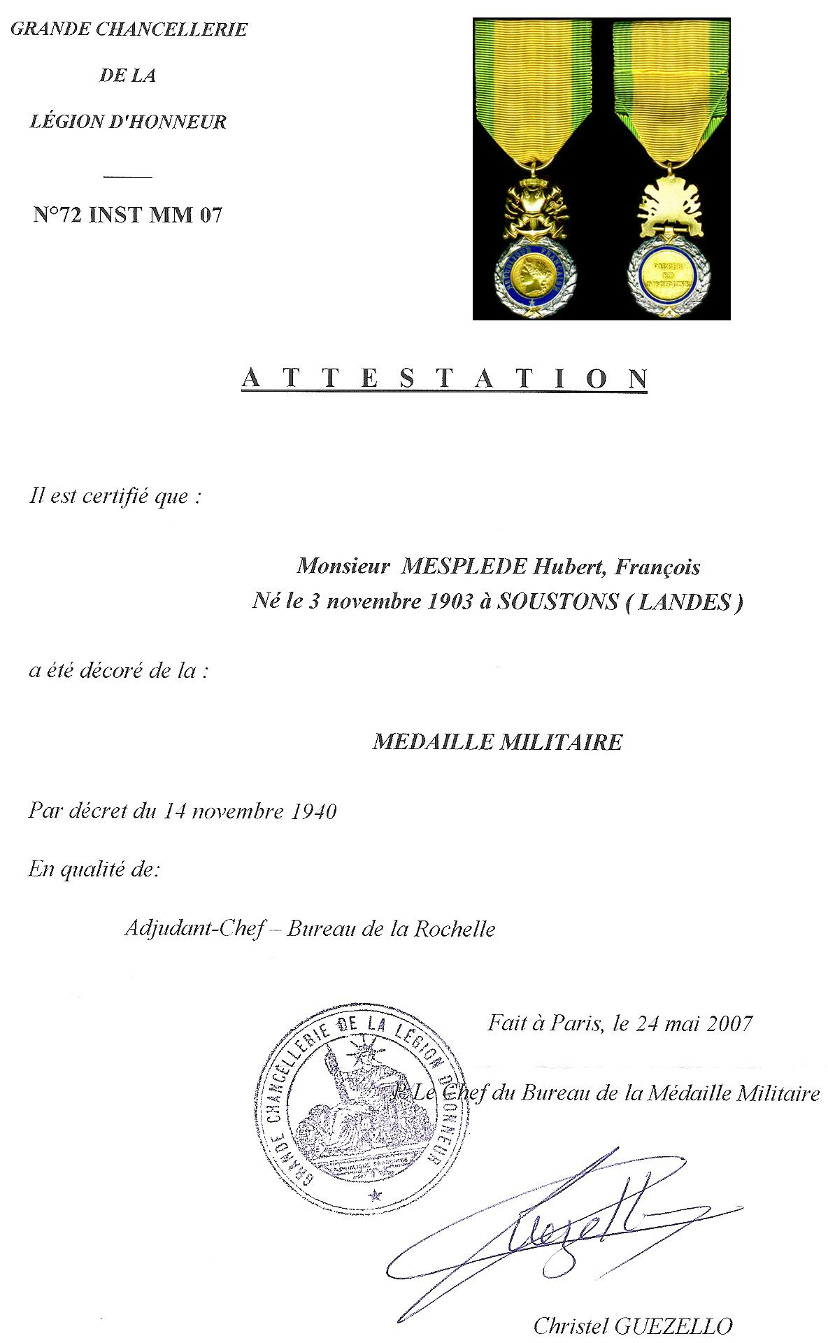 Hubert Mespléde's Médaille militaire certificate, uploader's grand-father